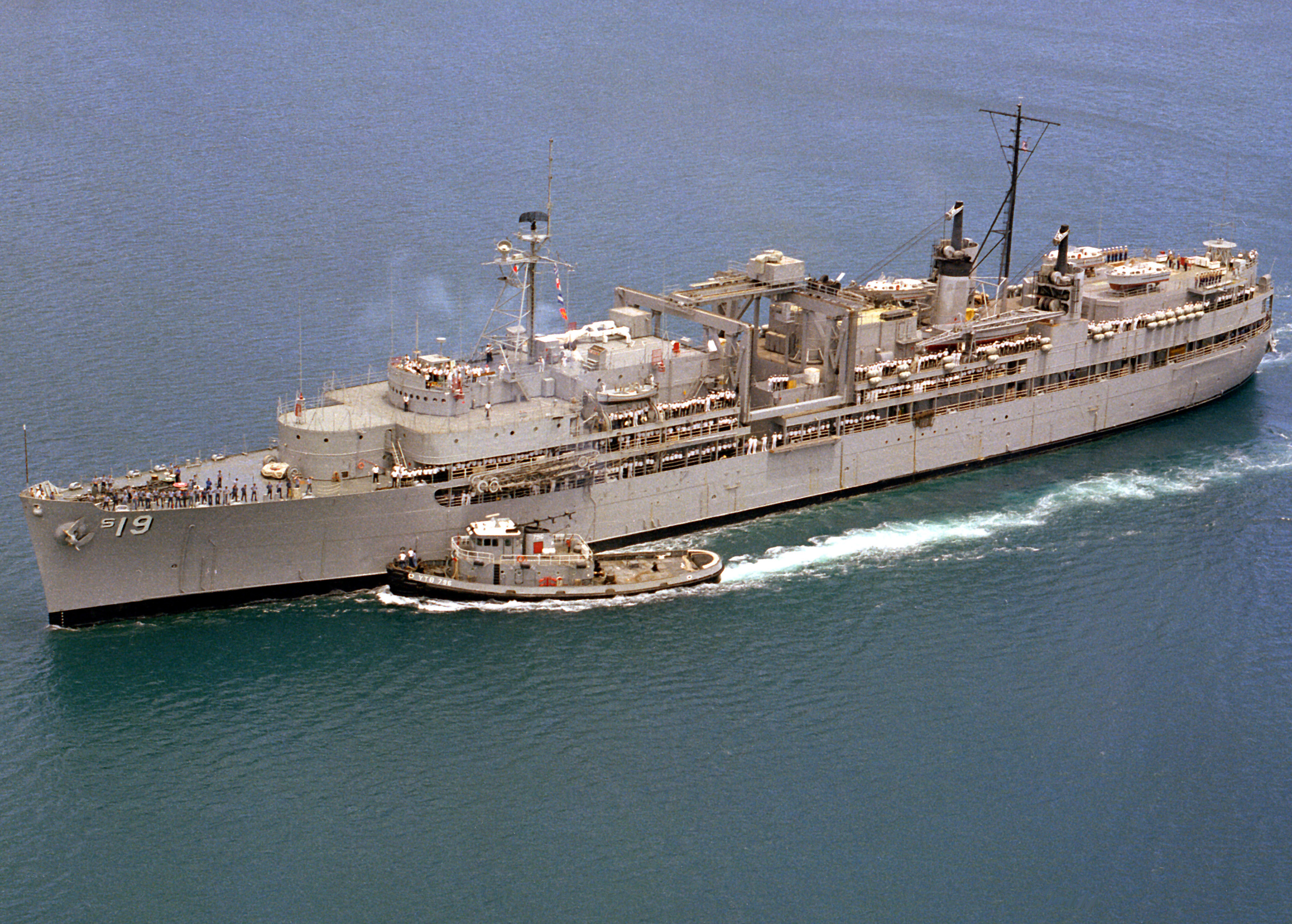 The large harbor tug USS Saco (YTB-796) maneouvers the U.S. Navy submarine tender USS Proteus (AS-19) into port at the U.S. Naval Base Guam on 24 May 1980.